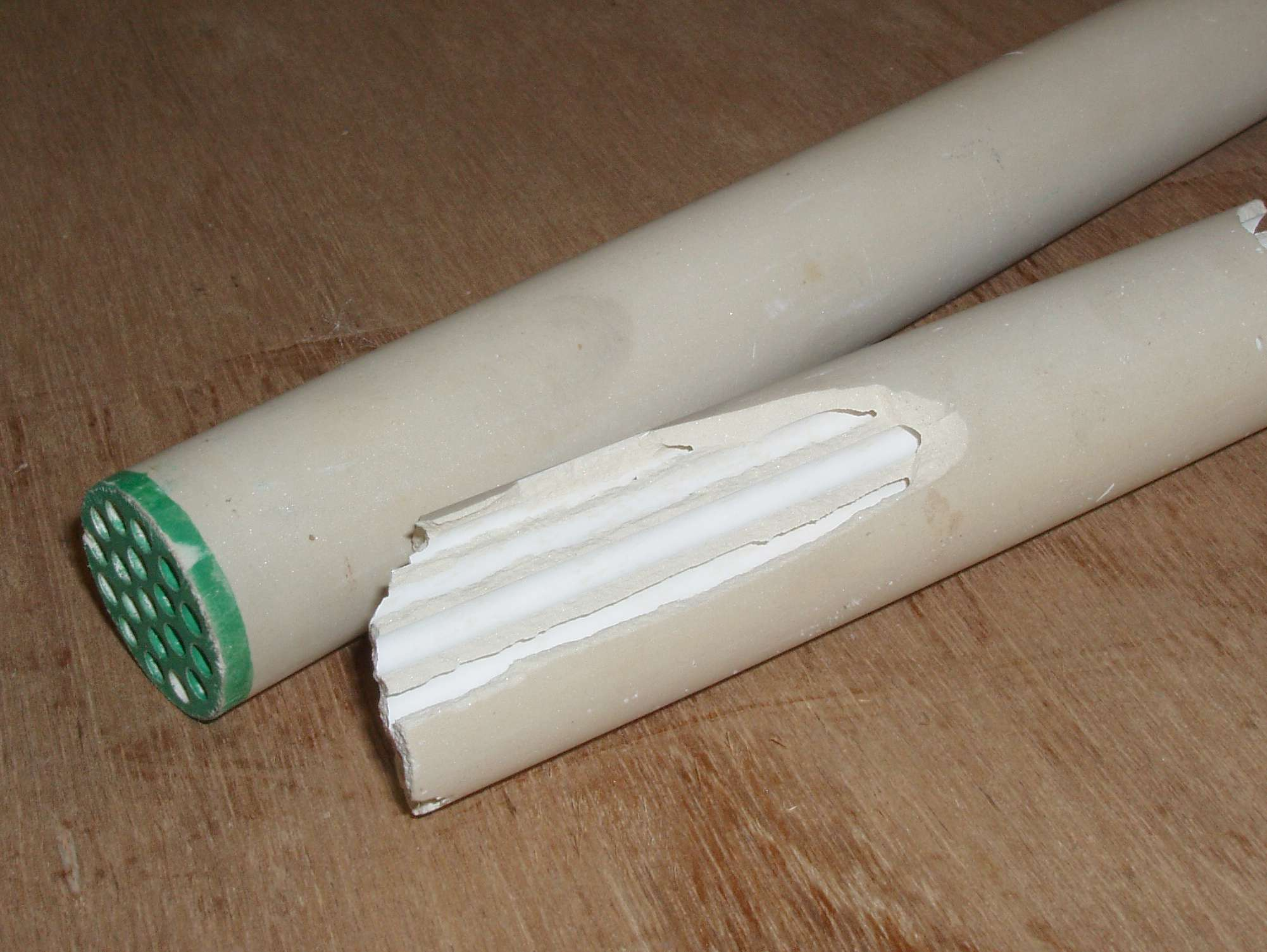 Ceramic membranes for industrial cross-flow filtration. The front mambrane has been deliberately broken to show the linear flow channels inside.